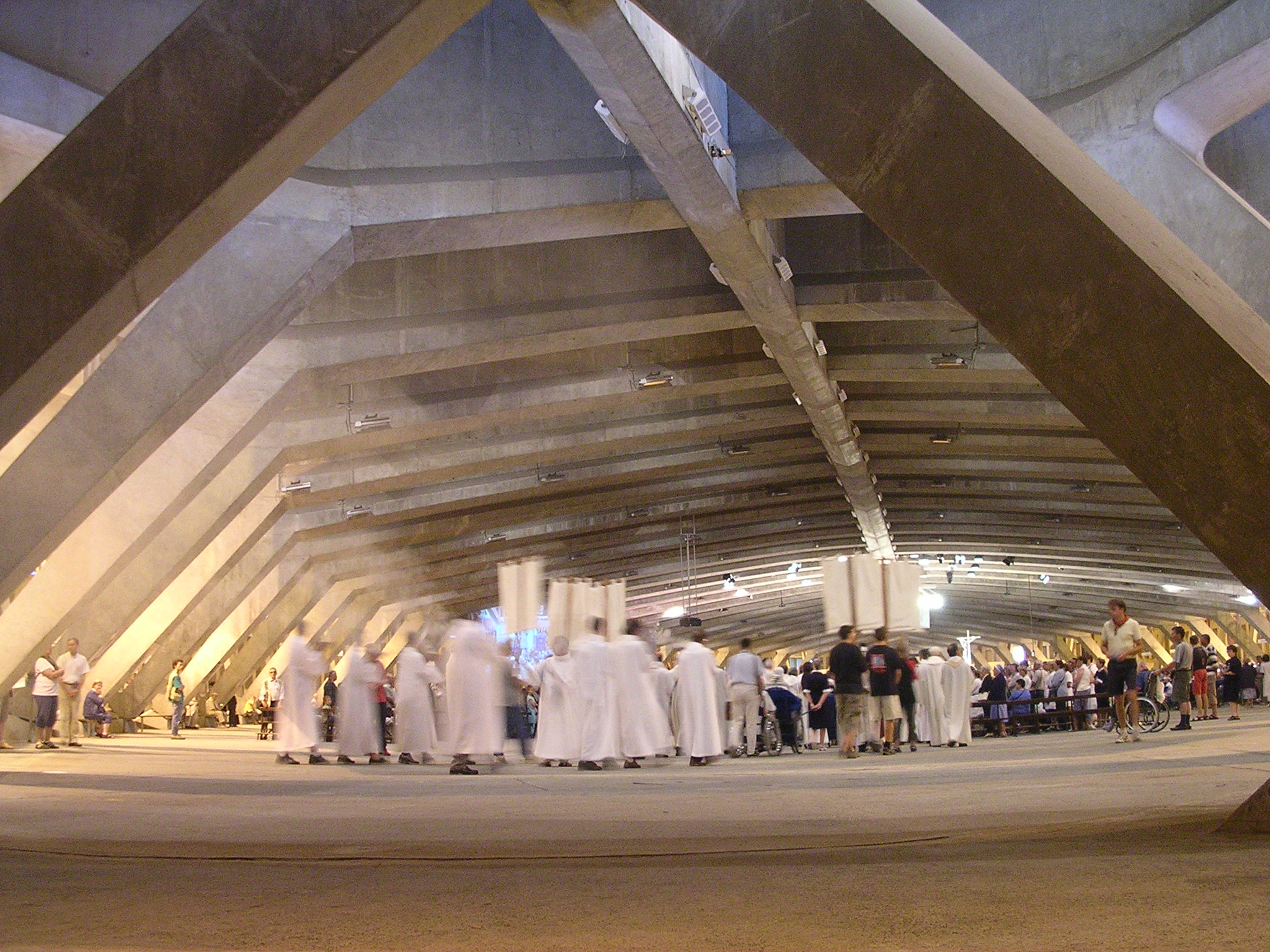 Lourdes, France